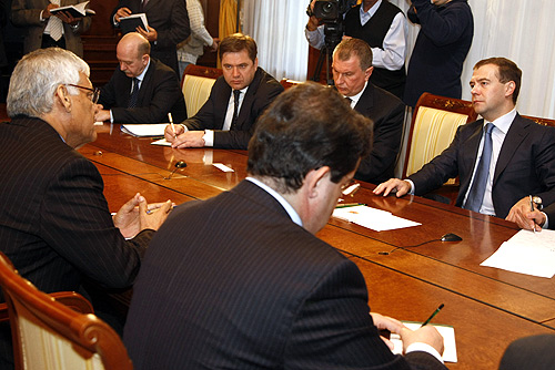 GORKI, MOSCOW REGION. At a meeting with Secretary General of the Organisation of the Petroleum Exporting Countries (OPEC) Abdalla El-Badri.